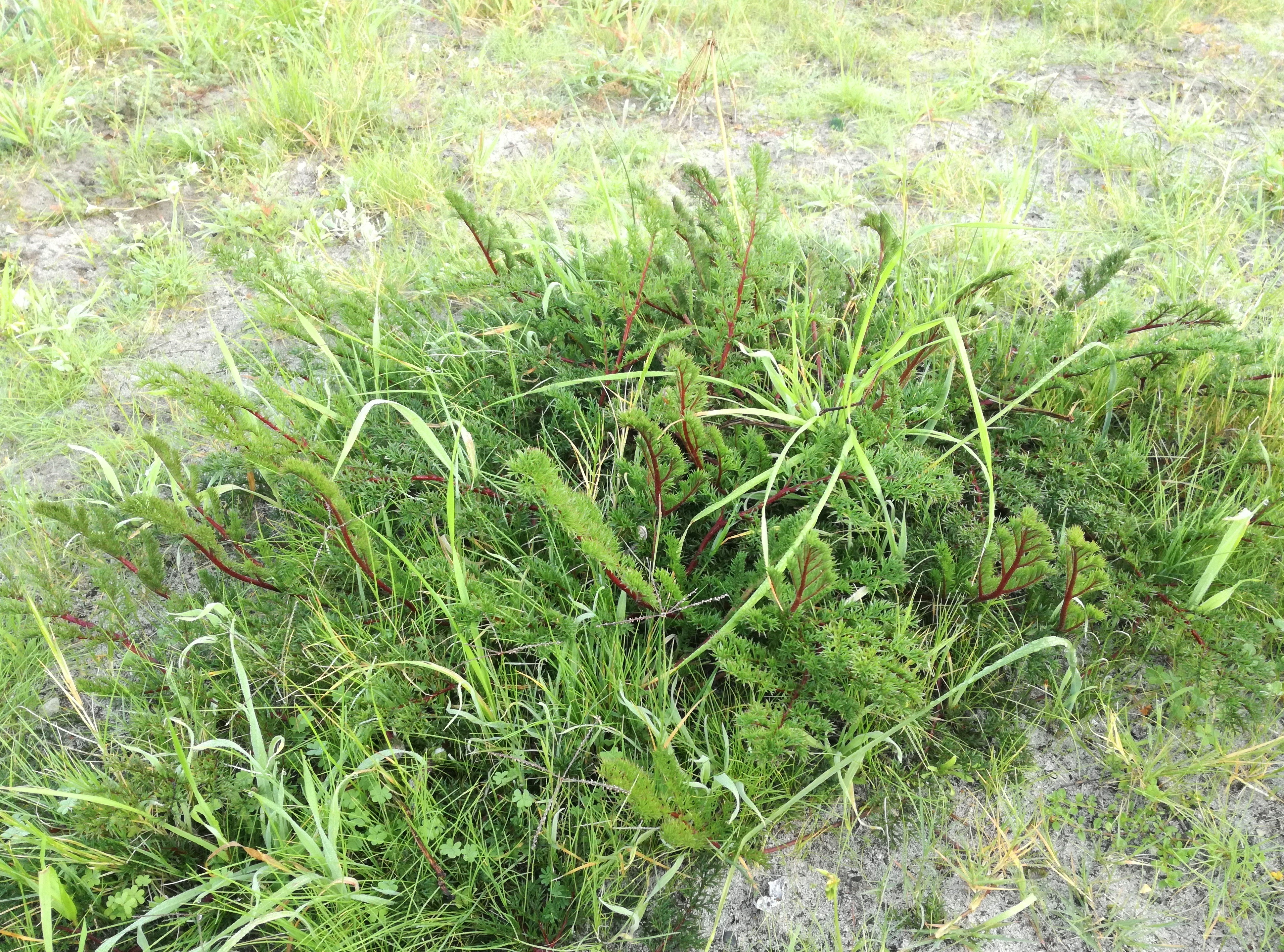 Pelargonium triste - Kenwyn Nature Park - Cape Town